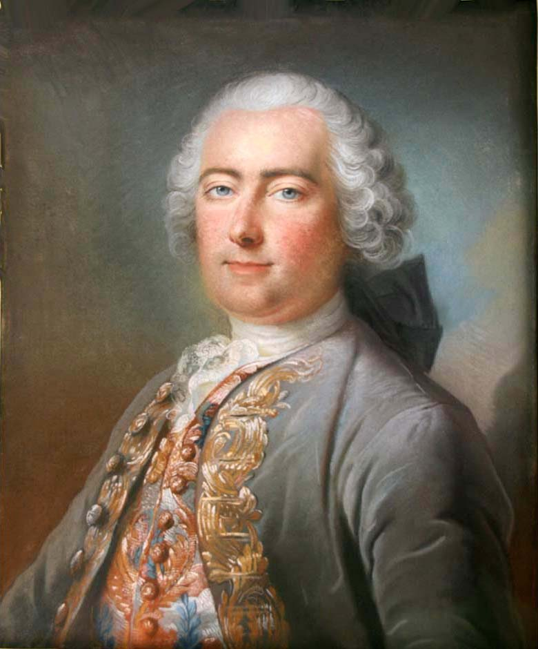 Louis-François de Livet (ca. 1720-1793/94), chevalier, Marquis de Barville, Lieutenant of the Marshals of France, Seigneur and Patron of La Poterie-Mathieu, Caudecotte and Bazoques, among others, married to Anne-Charlotte-Gabrielle de Giverville. Louis-François de Livet was a notaire at Lisieux. Both his younger sons (Marc Louis-Charles de Livet and Alexandre-Marie-Armand de Livet) served in the royalist Regiment of Flanders during the French Revolution. His eldest son, François-Louis-Charles de Livet, born in 1766 and married to Marie Sophie Agnès de Beaunay, inherited his father's title and succeeded him as Marquis de Barville. Francois-Louis-Charles de Livet was the last Seigneur and Patron of La Poterie-Mathieu, which the de Livet family had held since the 14th century through marriage with a Martel heiress. He died in 1830.